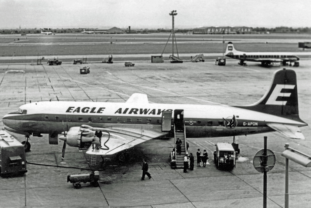 Douglas DC-6A G-APON of Eagle Airways at London Heathrow Airport in 1960